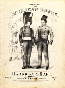 Harrigan & Hart's The Mulligan Guard, c. 1875, New York City